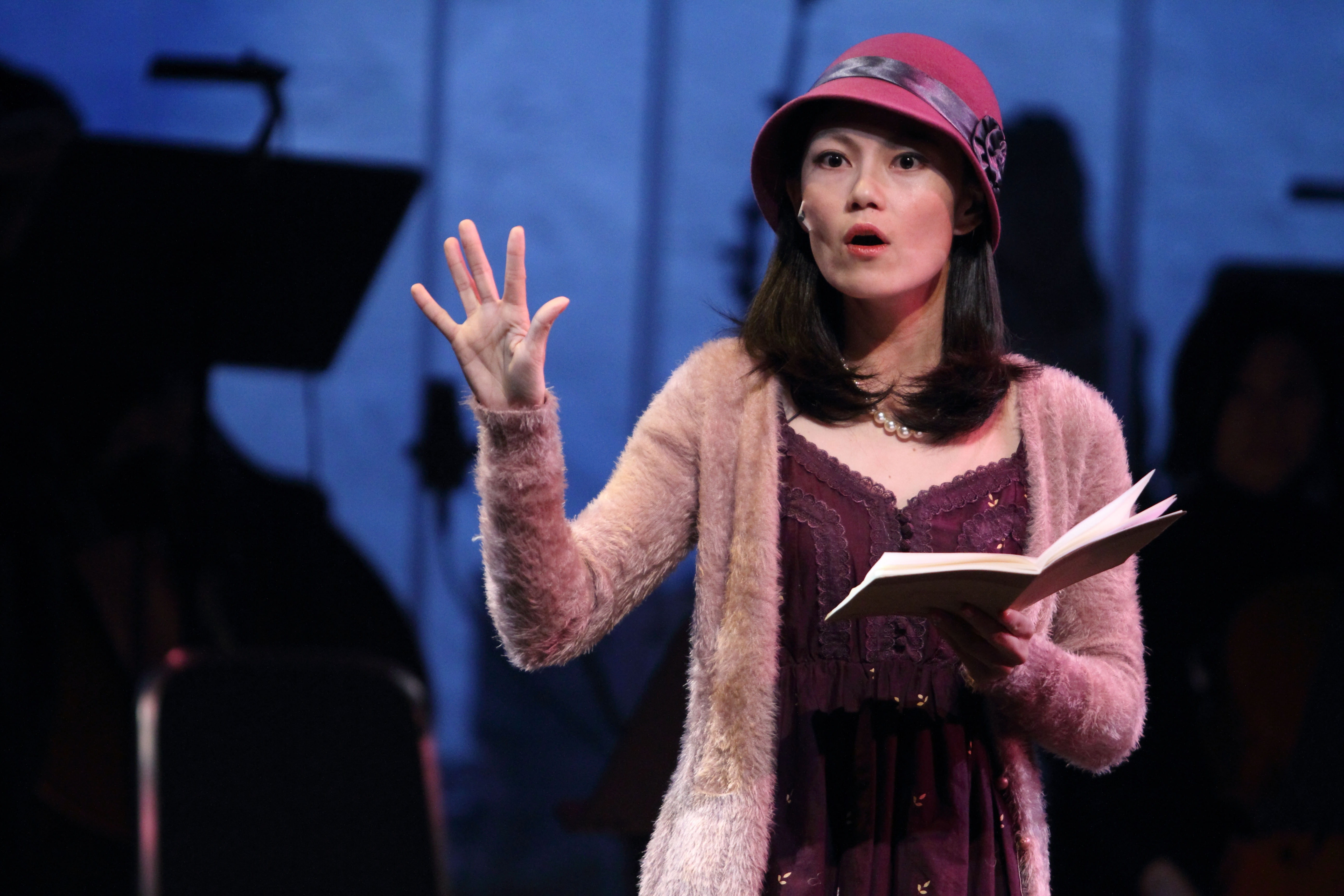 Angel Lam as composer and narrator